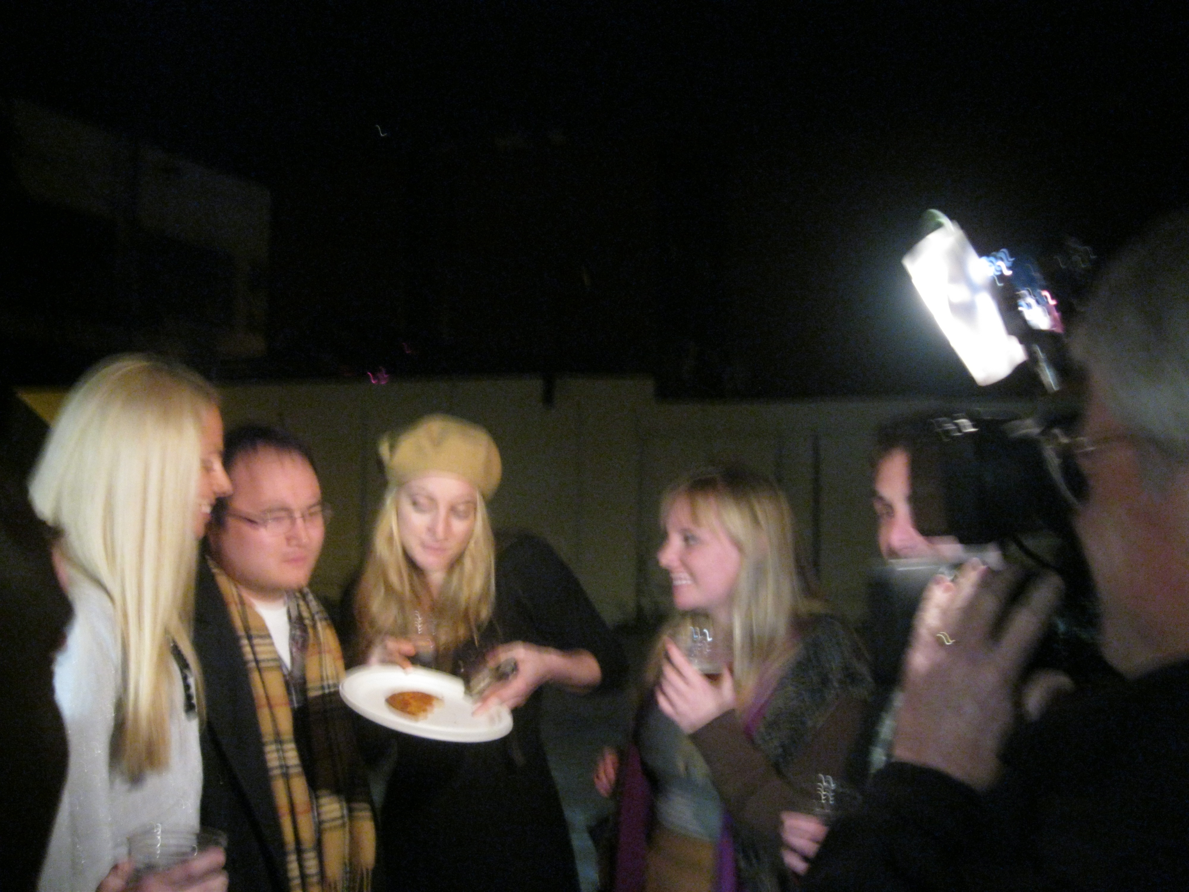 Hermione Way, Sarah Austin and Ben Parr partying.